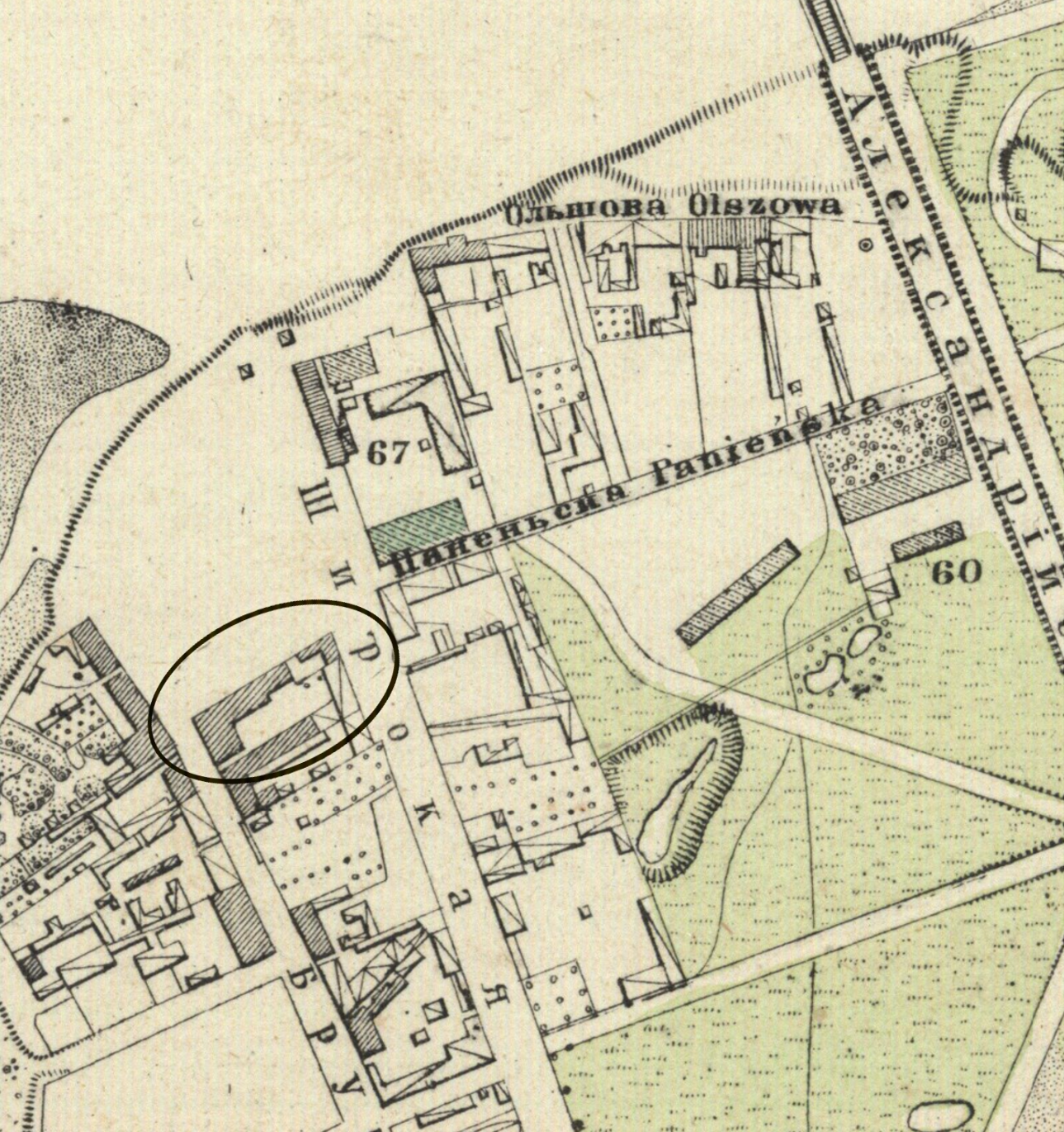 Parcel 409 on the plan of Warsaw, 1867